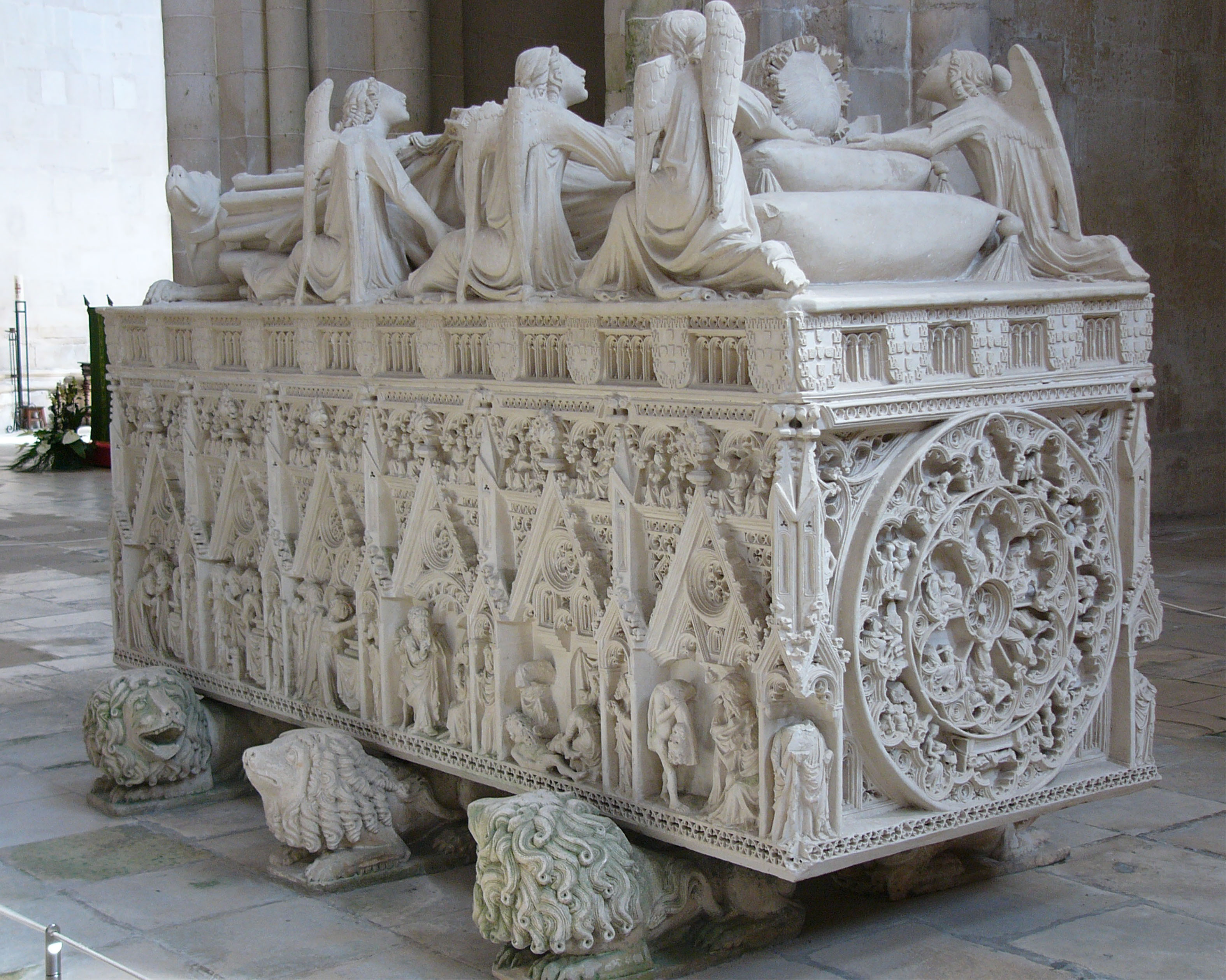 Tomb of King Pedro I in the church of the Alcobaça Monastery, Portugal